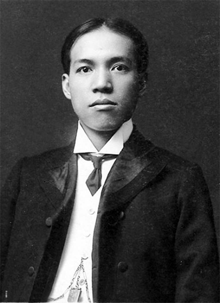 Liang Qichao in Japan